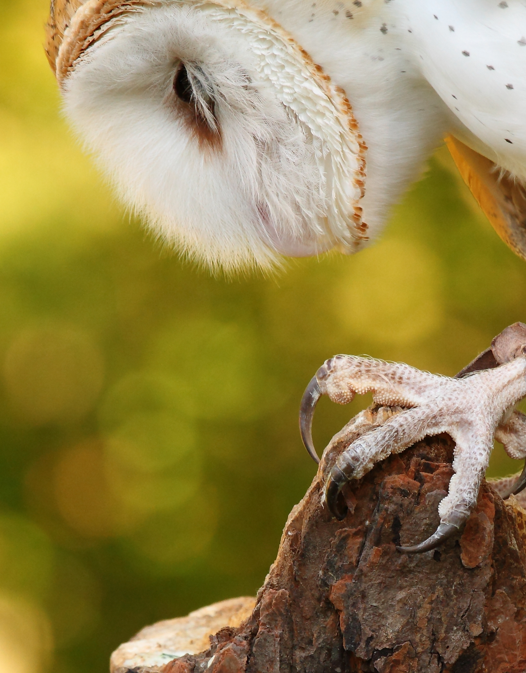 Detail of barn owl talon. Taken at Raptor, Inc. - Cincinnati, OH.